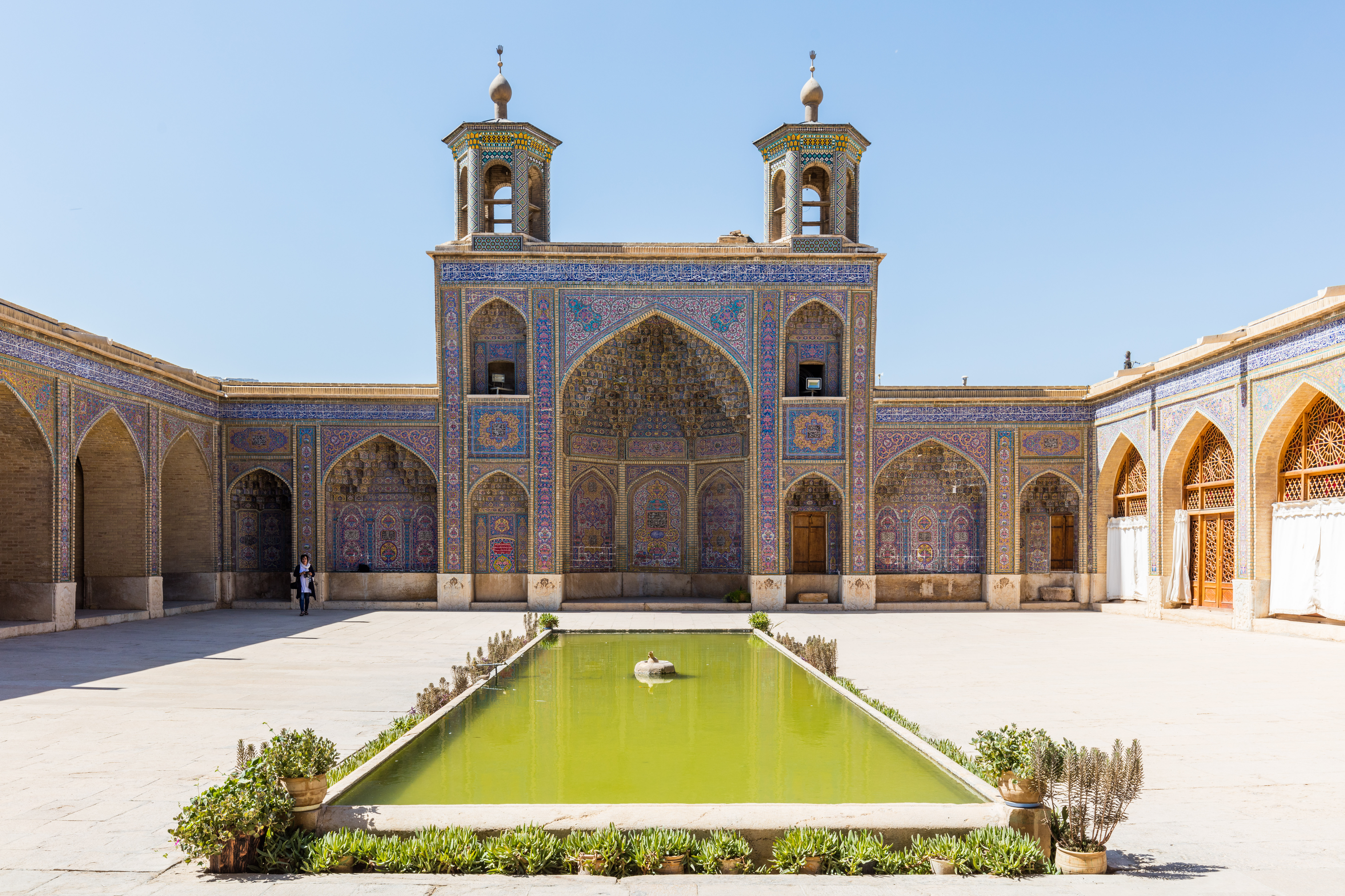 Nasirolmolk mosque, Shiraz, Iran